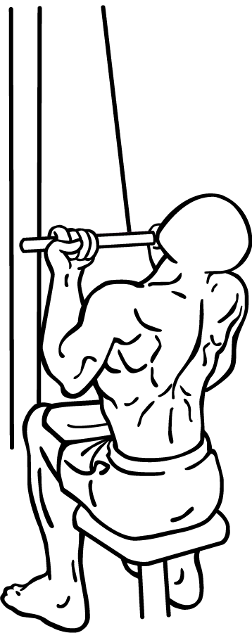 an exercise of upper back